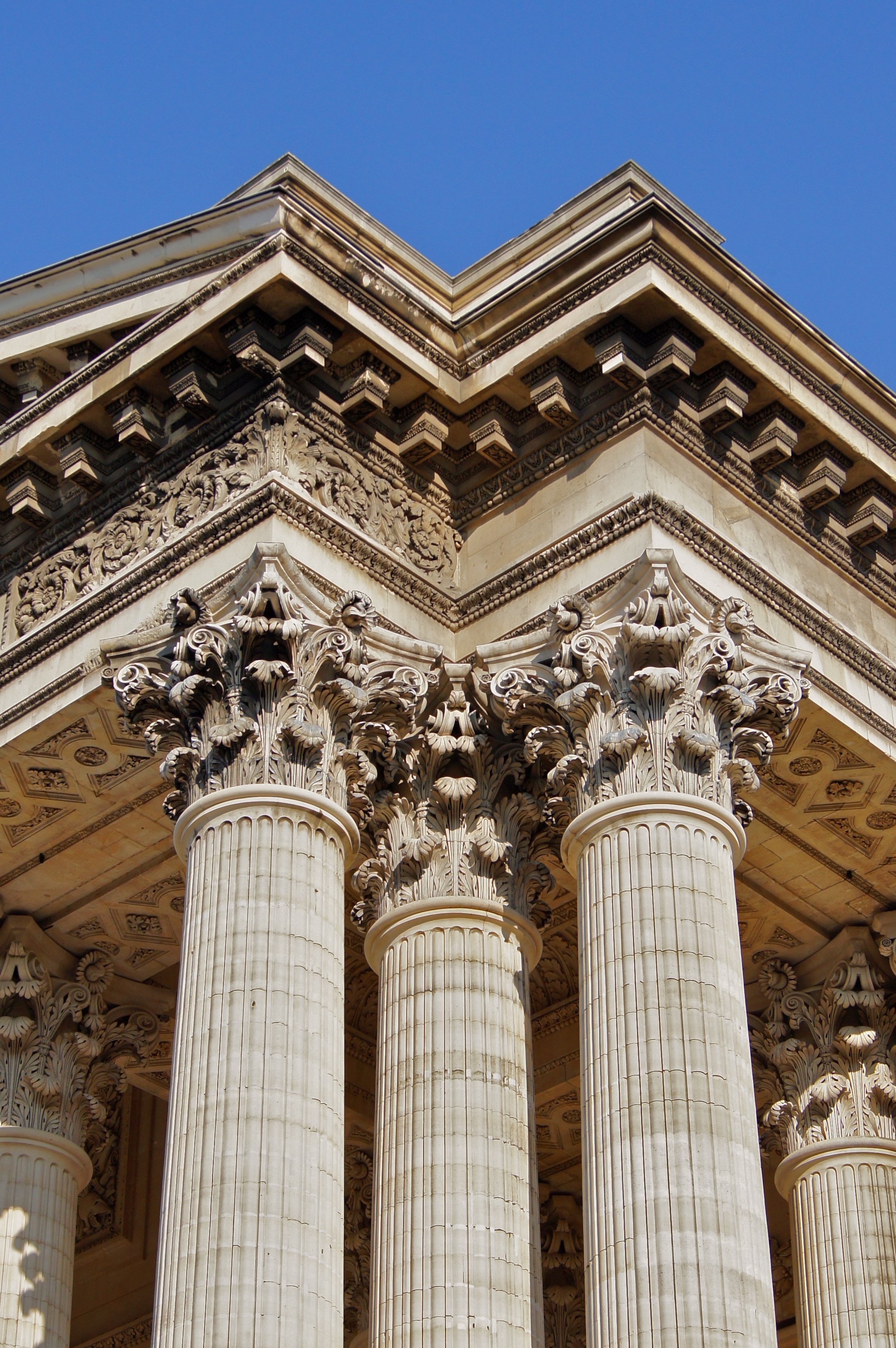 neo classical columns and capitals of the Pantheon of Paris